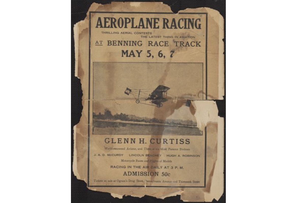 Advertisement for airplane racing event at Benning race track featuring an image of an airplane. The event will feature Glenn H. Curtiss and his three andquot;birdmenandquot;, J. A. D. McCurdy, Lincoln Beachey, and Hugh A. Robinson. Tickets were on sale at Ogram's Drug store at Pennsylvania Avenue and 13th Street NW. Date is based on documentation of the event in the May 16, 1911 New York Times. The airplane pictured appears to be a Curtiss No. 2